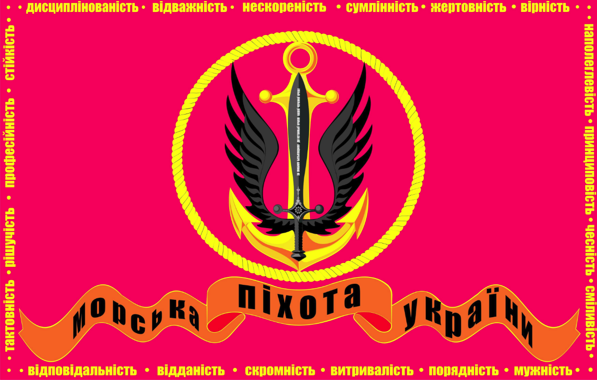 Flag of the Ukrainian Marine Corps